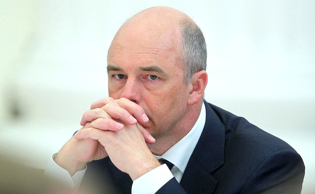 At a meeting on the implementation of the Presidential Decree of May 7 2012 year. Minister of Finance Anton Siluanov.